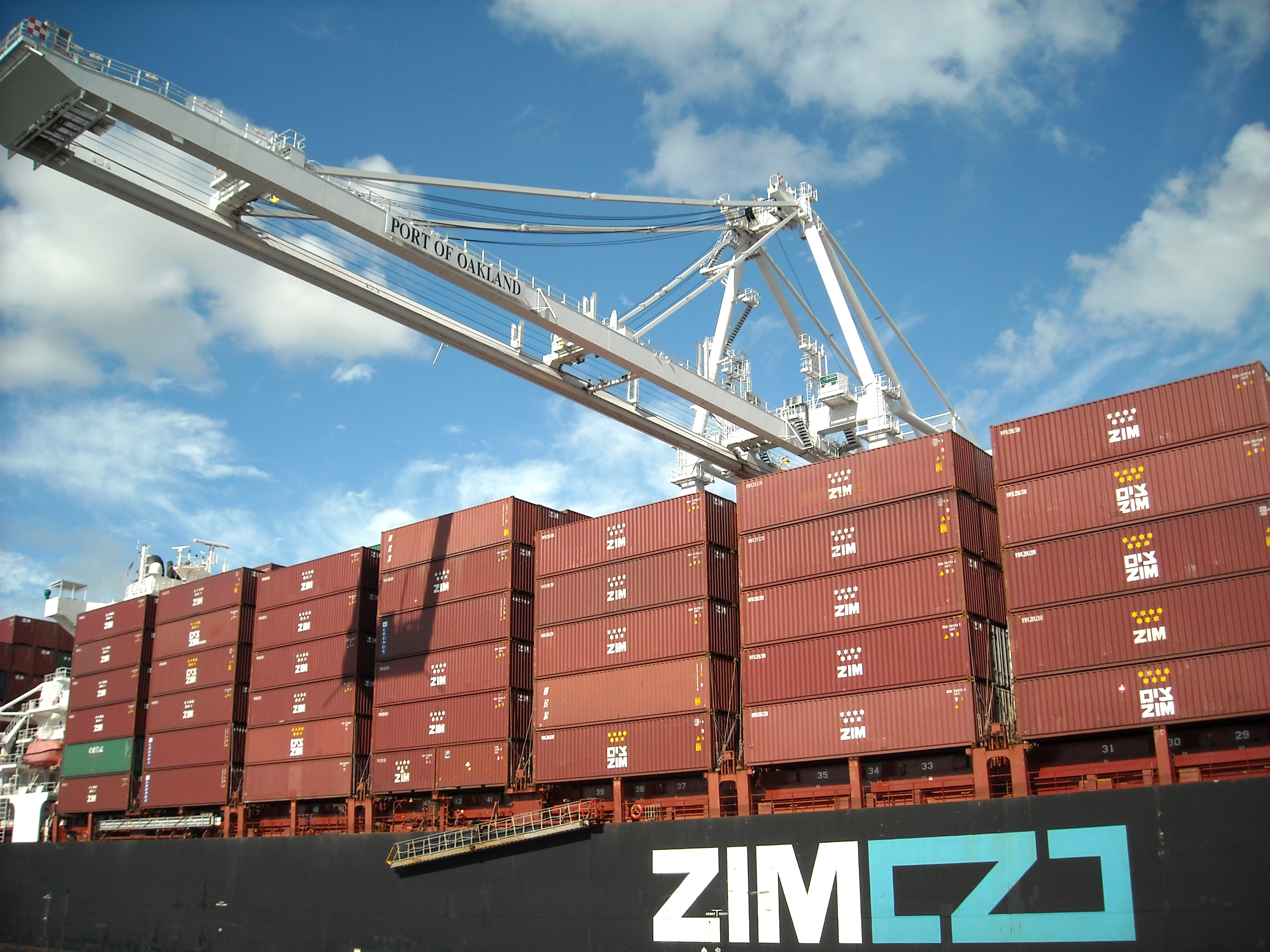 On the ferry to San Francisco